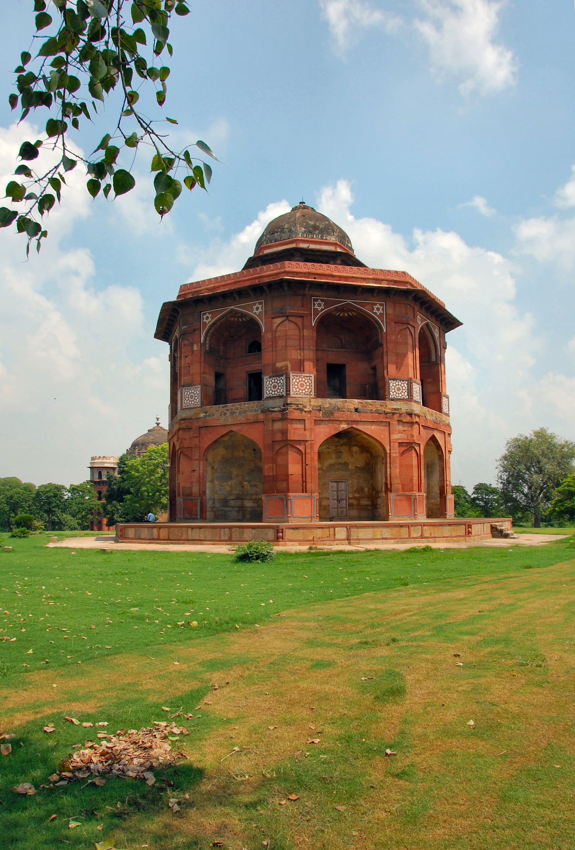 Sher Mandal, Purana Qila (Old Fort), Delhi, India, the library of Mughal Emperor, Humayun, where he slipped and died two days later.